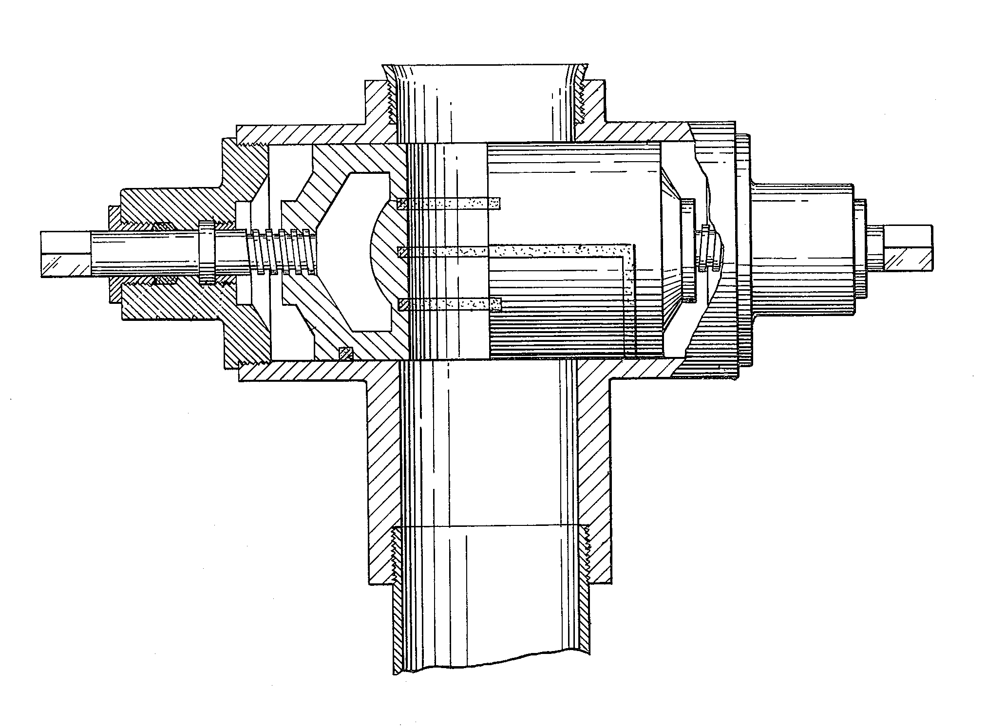 Cameron Ram-type Blowout Preventer (1922) U.S. Patent 1,569,247. Text was removed from figure and minor cleanup of the scan was done with Microsoft Paint.